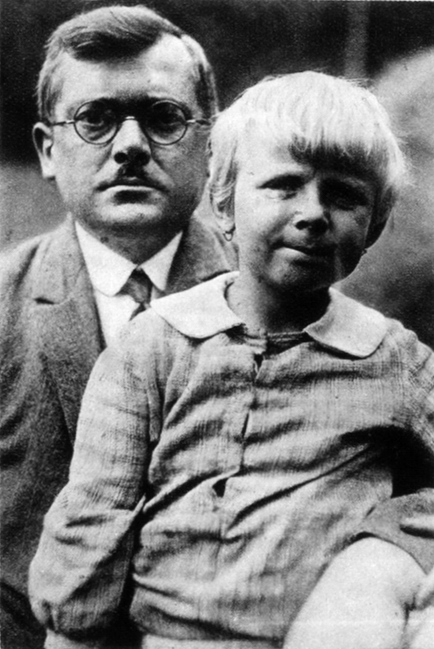 Václav Špála (1885-1946) with his daughter Eva, c. 1928.